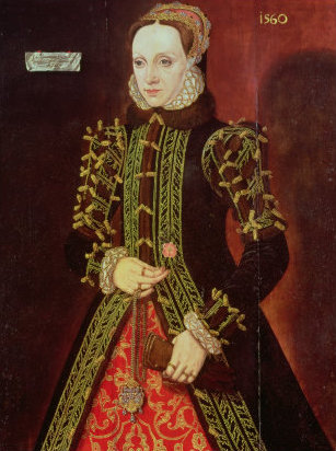 Portrait of Elizabeth Fitzgerald, Countess of Lincoln